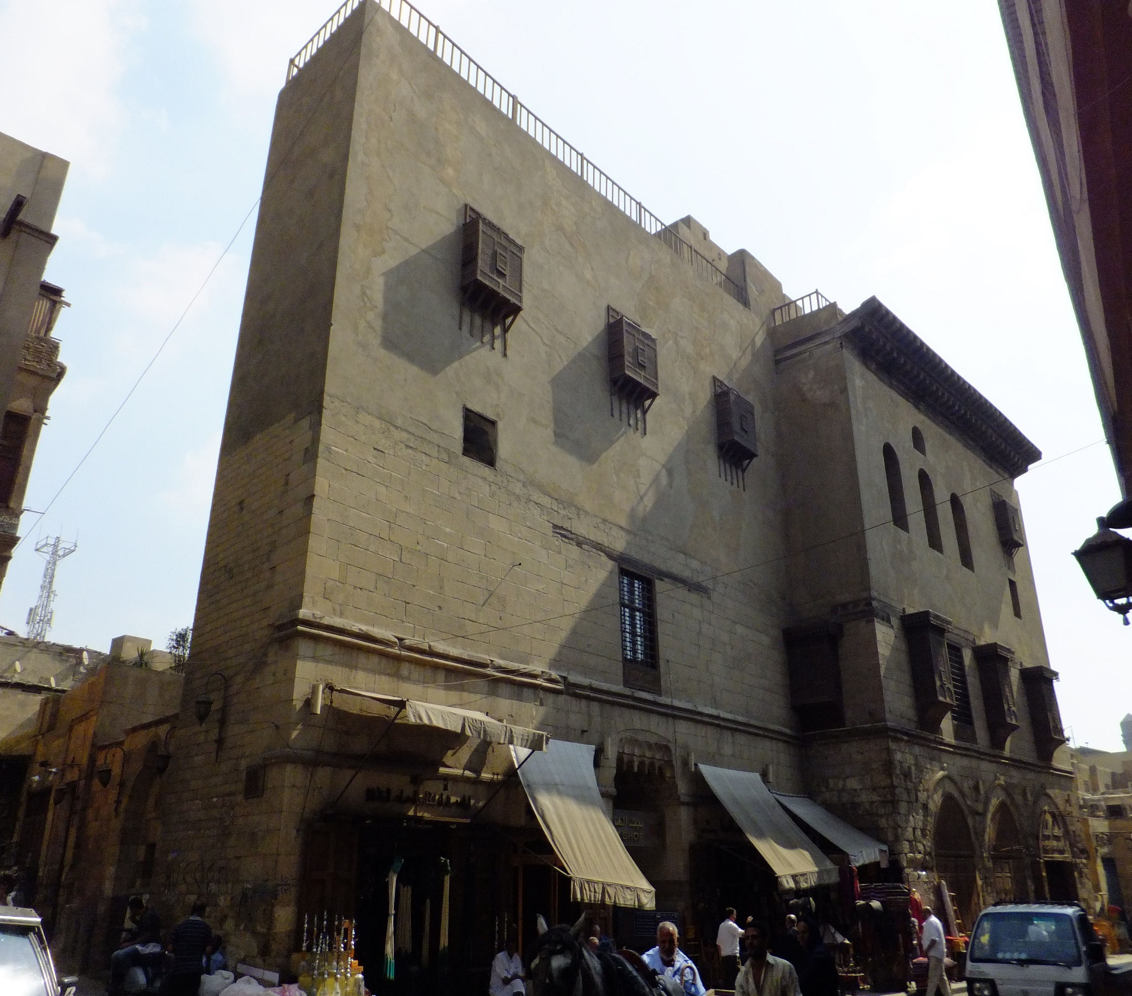 Exterior view of the remains of the Bashtak palace on al-Mu'izz street, Bayn al-Qasrayn.